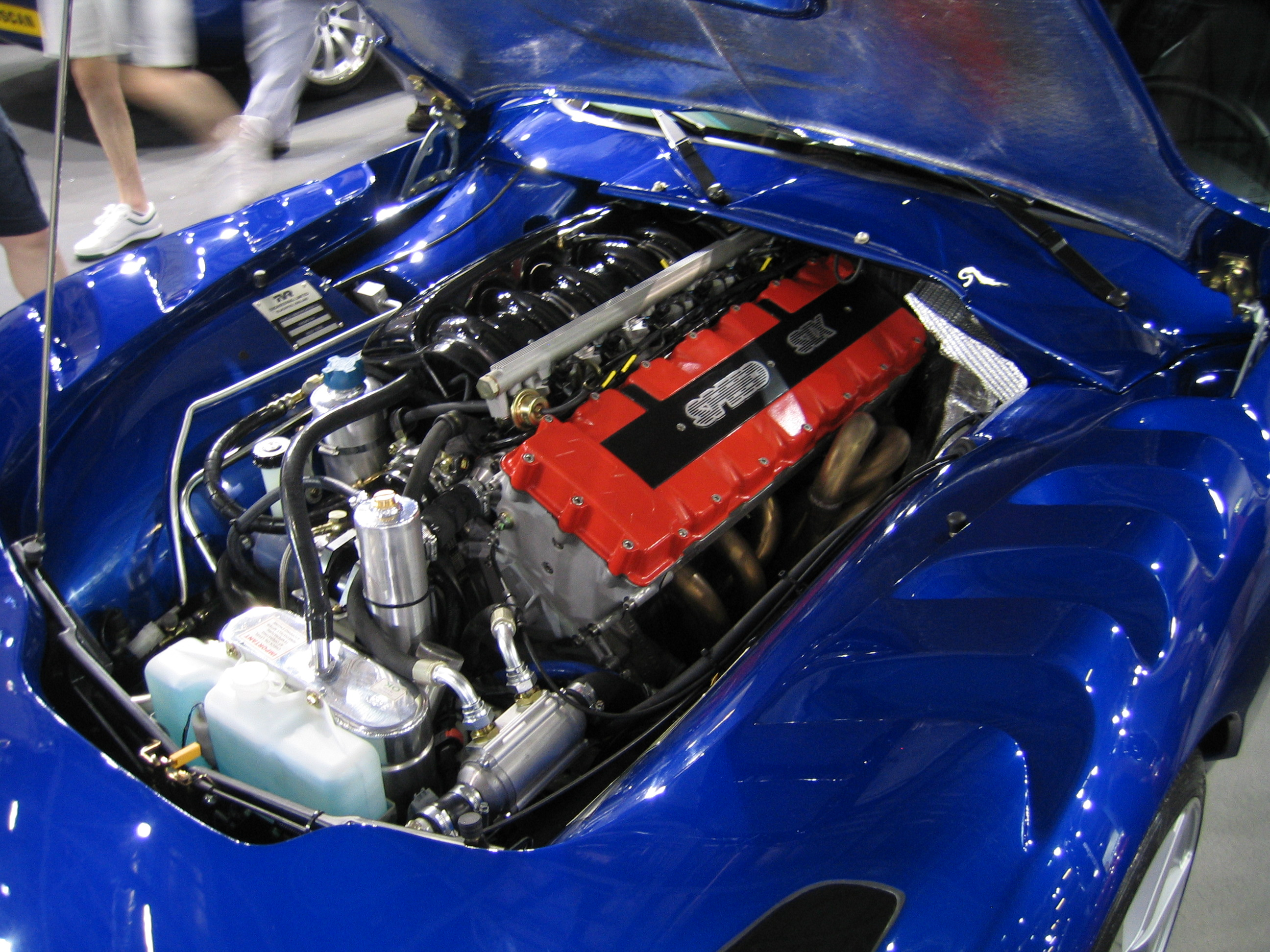 The straight-six engine of a Sagaris.